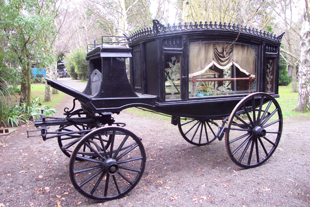 c1886 Hearse - Used in Invercargil by McDonald and Western. Glass Sides were an improvement on previous, sombre box-like hearses. It is believed to have carried the body of the Right Honorable Richard Seddon. This Hearse was replaced by a motorised hearse in 1922.